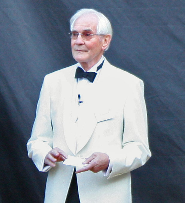 At the unveiling of the Corpus Clock: Dr John Taylor (centre), an horologist and former student at Corpus Christi College, Cambridge; Professor Stephen Hawking (right)